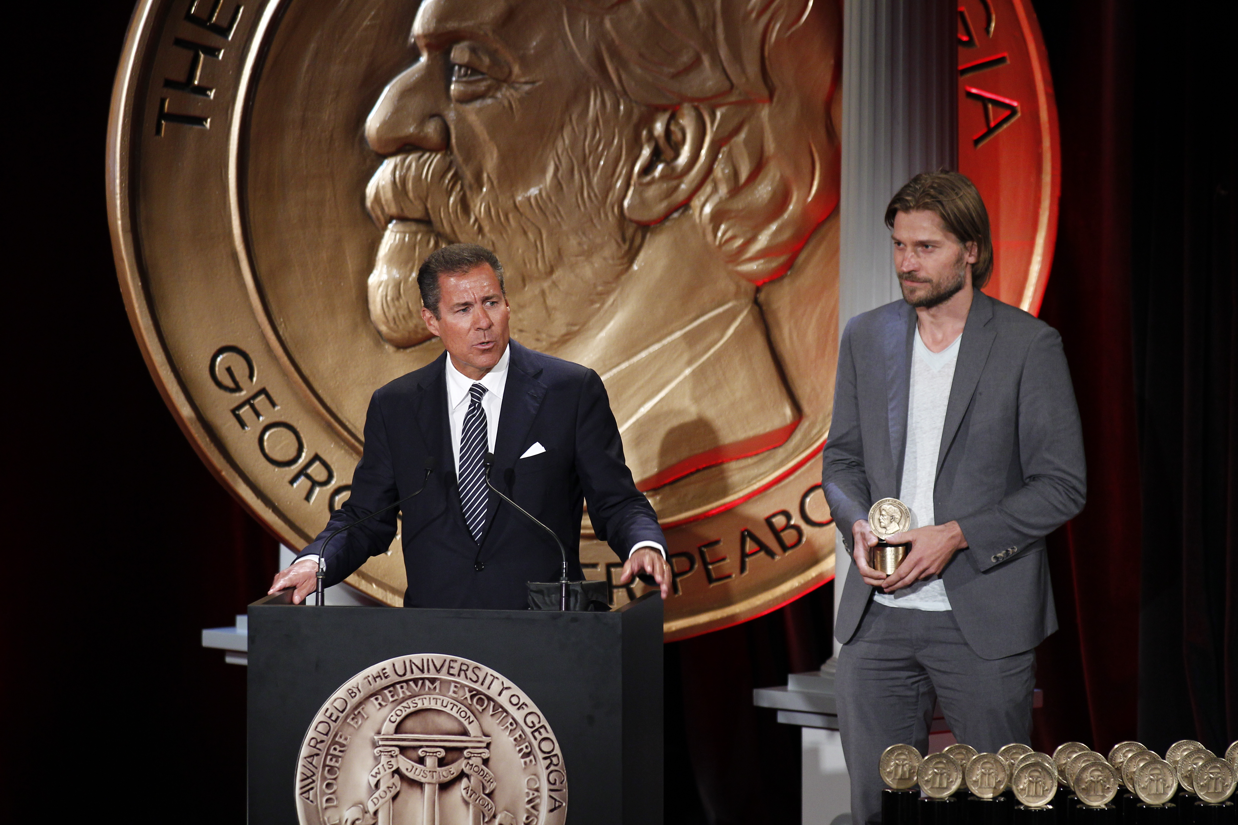 PHOTO CREDIT: ANDERS KRUSBERG / PEABODY AWARDS 71st Annual Peabody Awards Luncheon Waldorf=Astoria Hotel May 21, 2012